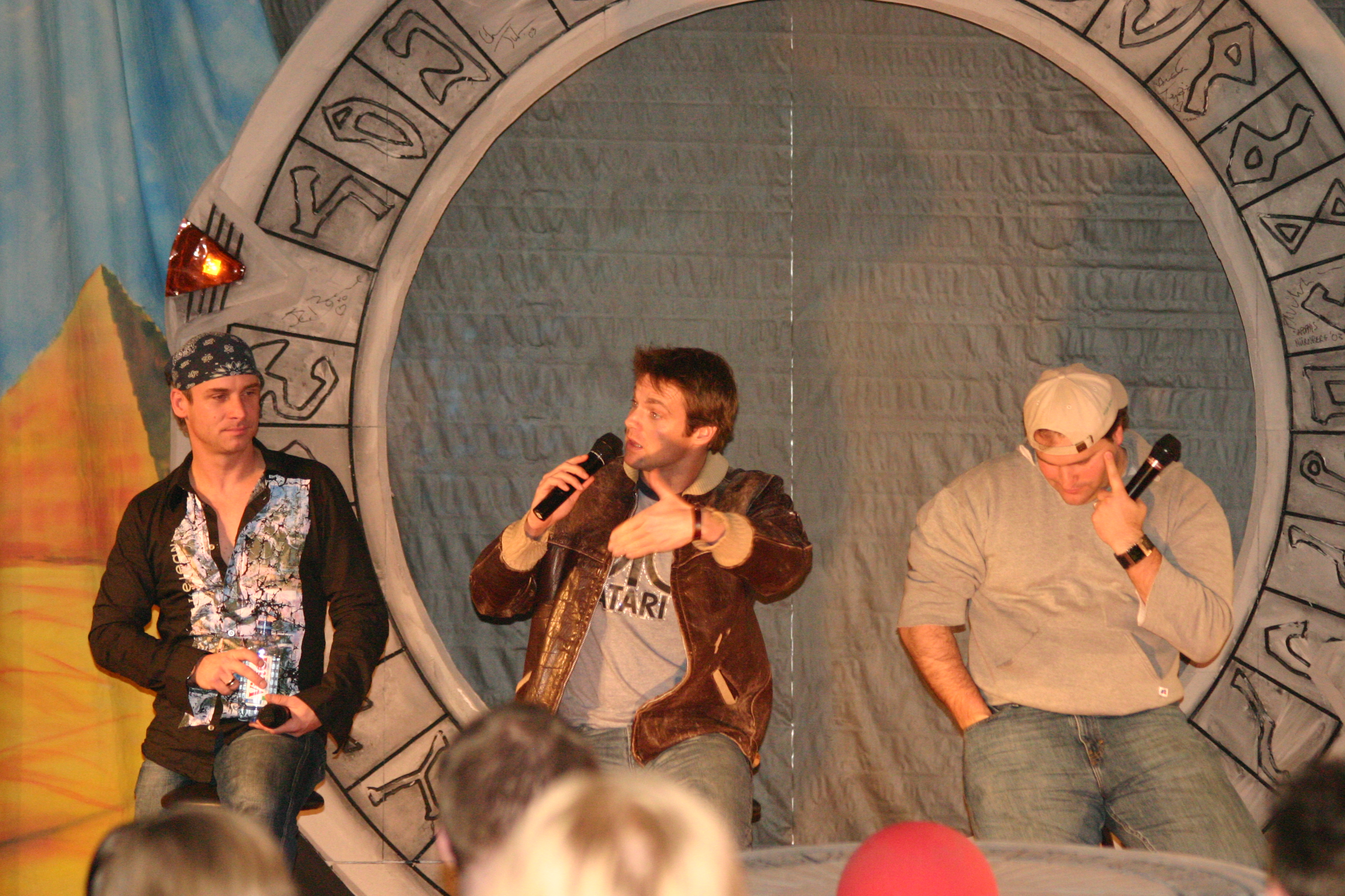 2004-12-10 - GermanCityCon Star-Guests: "The Wild Boys": Michael Shanks Colin Cunningham, and Peter DeLuise Film directors